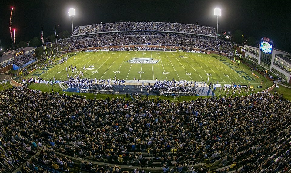 9/25/2014 The Eagles blew past the the Moutaineers 34-14 in front of the largest regular season crowd of 24,535.